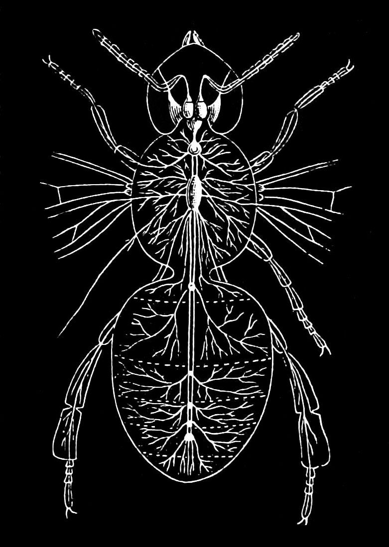 Nervous system of the adult bee